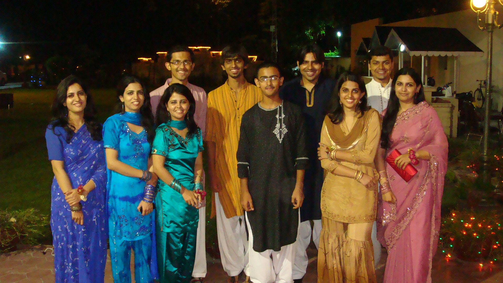 A wedding in Lahore, Pakistan with men and women dressed in traditional outfits.